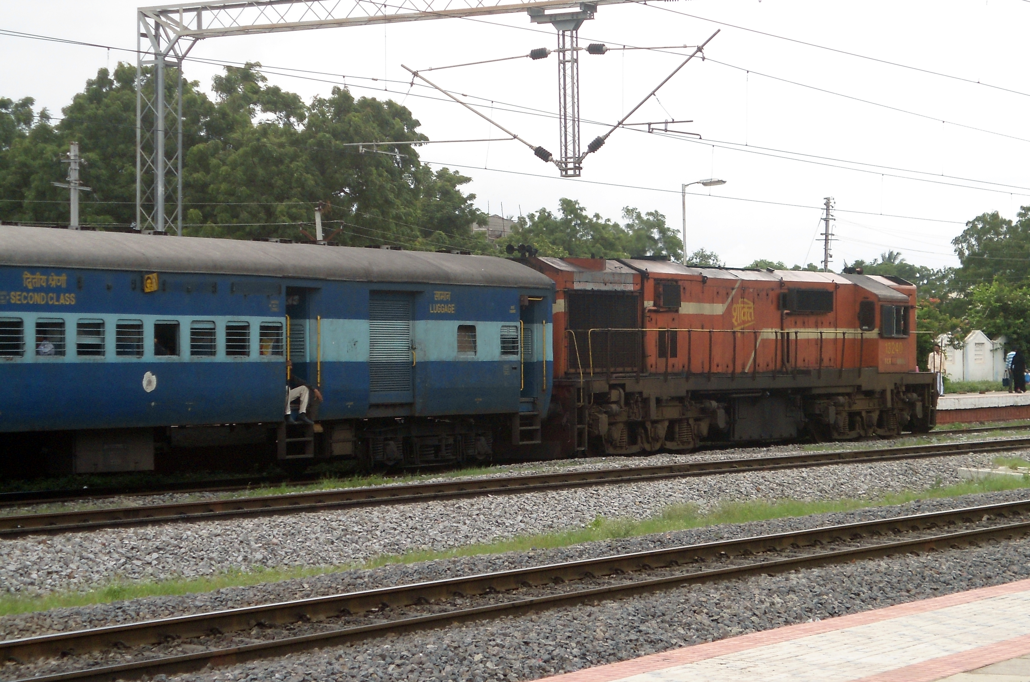 (SC-Repalle) Delta Passenger at Ghatkesar with a WDG-3A Loco